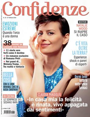 Cover of Confidenze magazine, 27 feb. 2018. Arnoldo Mondadori Editore, Mondadori Group.